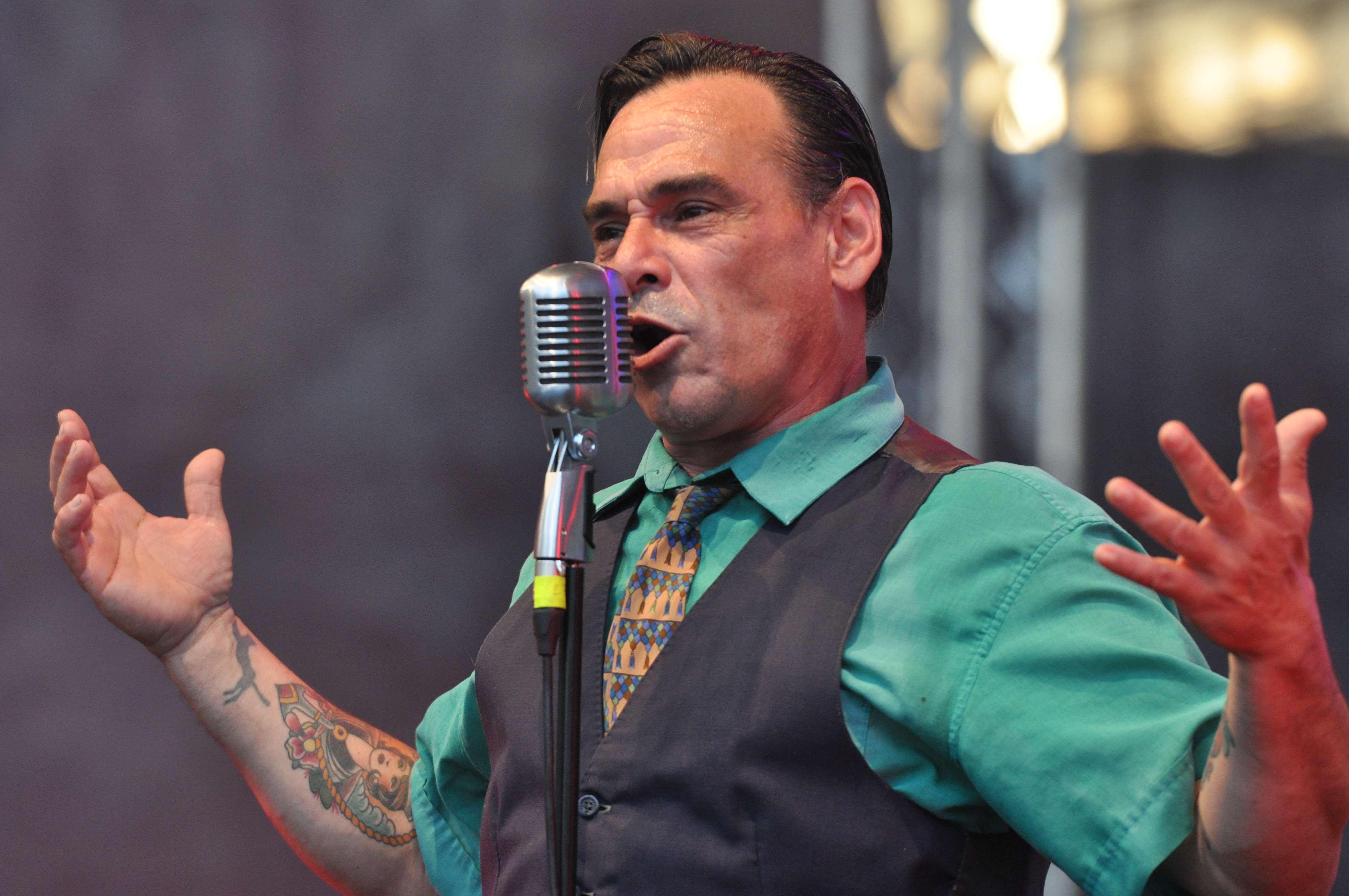 Rosario Smowing (AR), appearance at the 12th World Music Festival "Horizonte" 2014 at the fortress of Ehrenbreitstein, Koblenz (Germany)